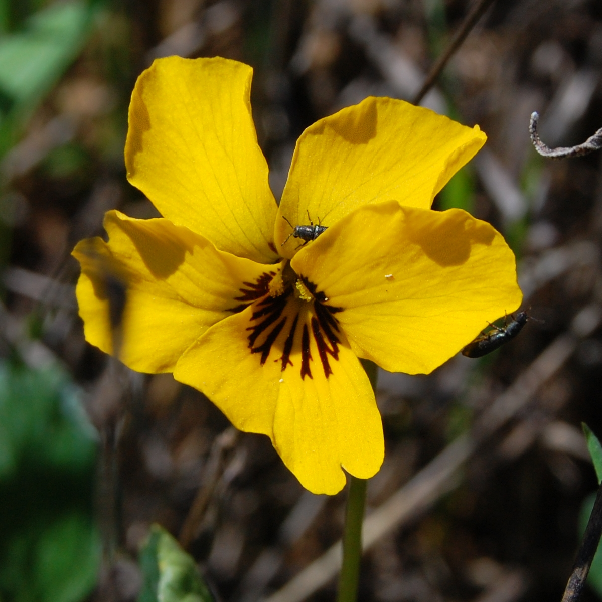 California Golden Violet, Johnny Jump Up, Yellow Pansy. Viola pedunculata. Made in Almaden Quicksilver County Park, San Jose, California, USA. Identified with help of